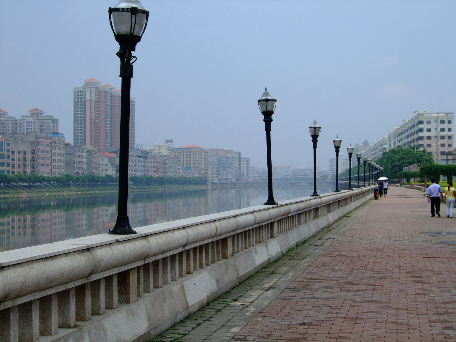 view along the river in ChangPing Town Dongguan